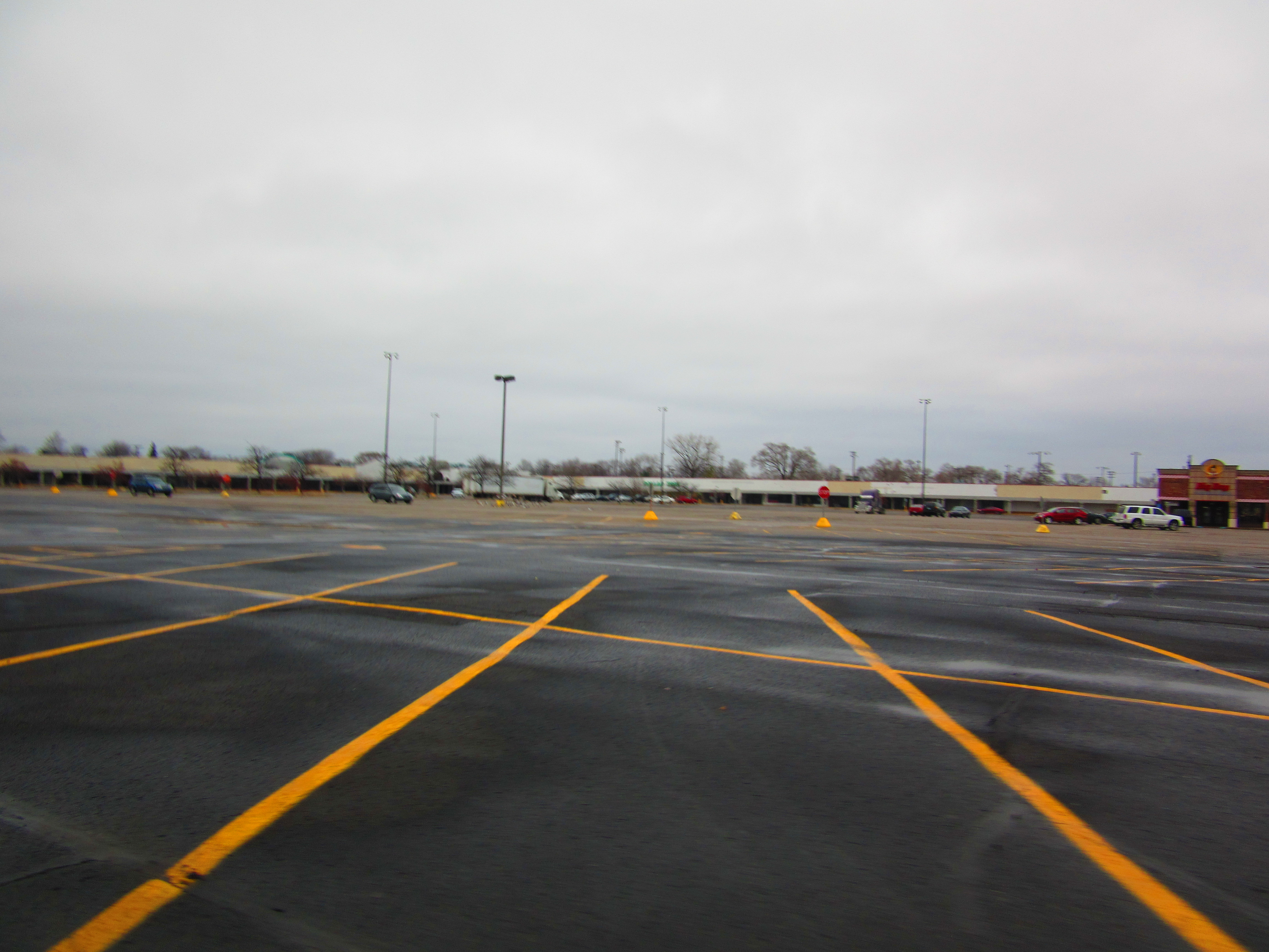 Lincoln Park Shopping Center, December 27, 2014. Taken by me.